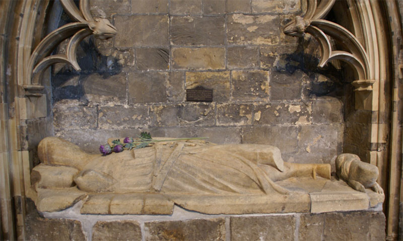 St Bride's Church, Douglas (Scotland) - effigy of The Good Sir James Douglas